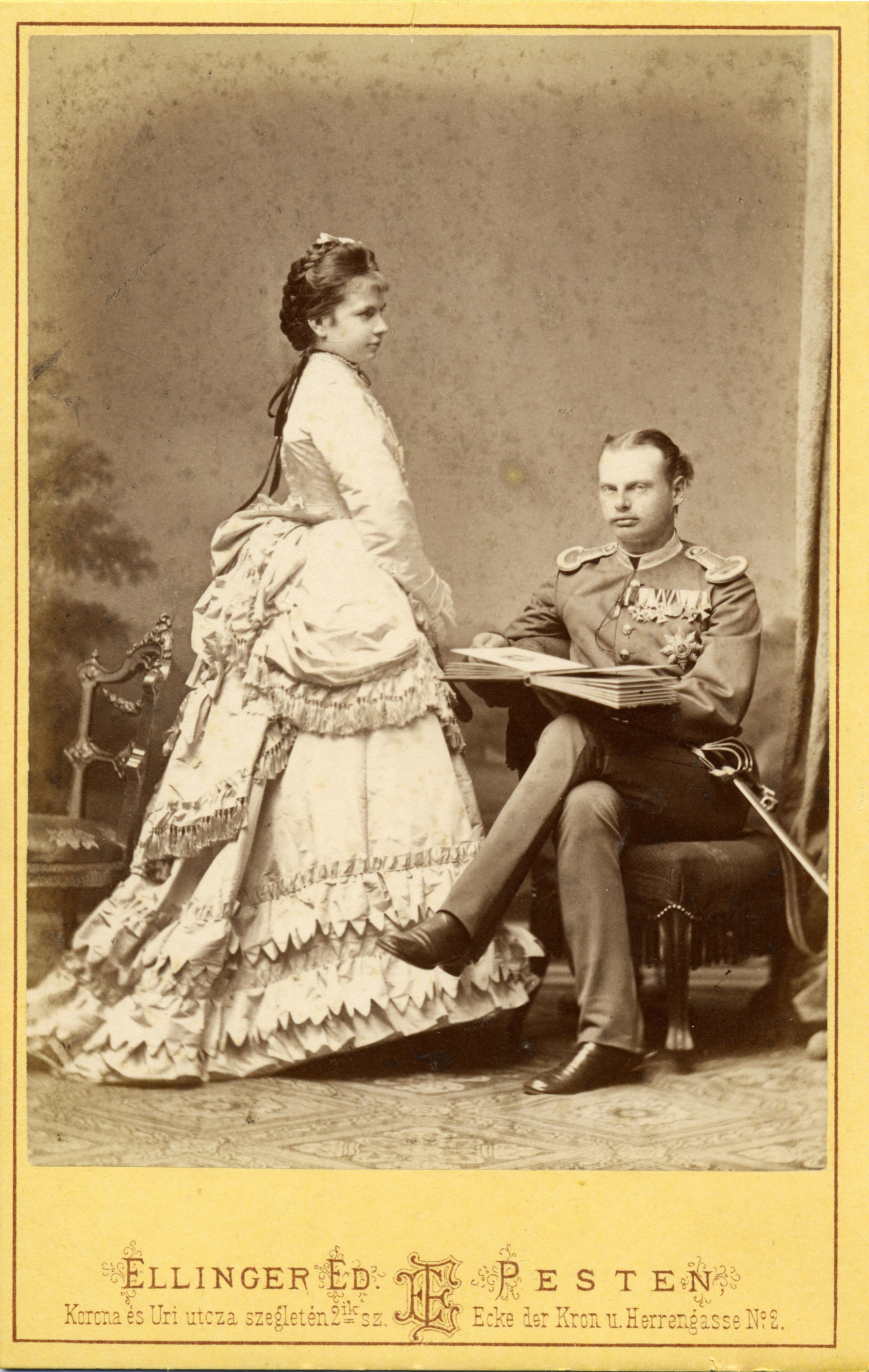 Archduchess Gisela of Austria with her fiancee Prince Leopold of Bavaria,1872